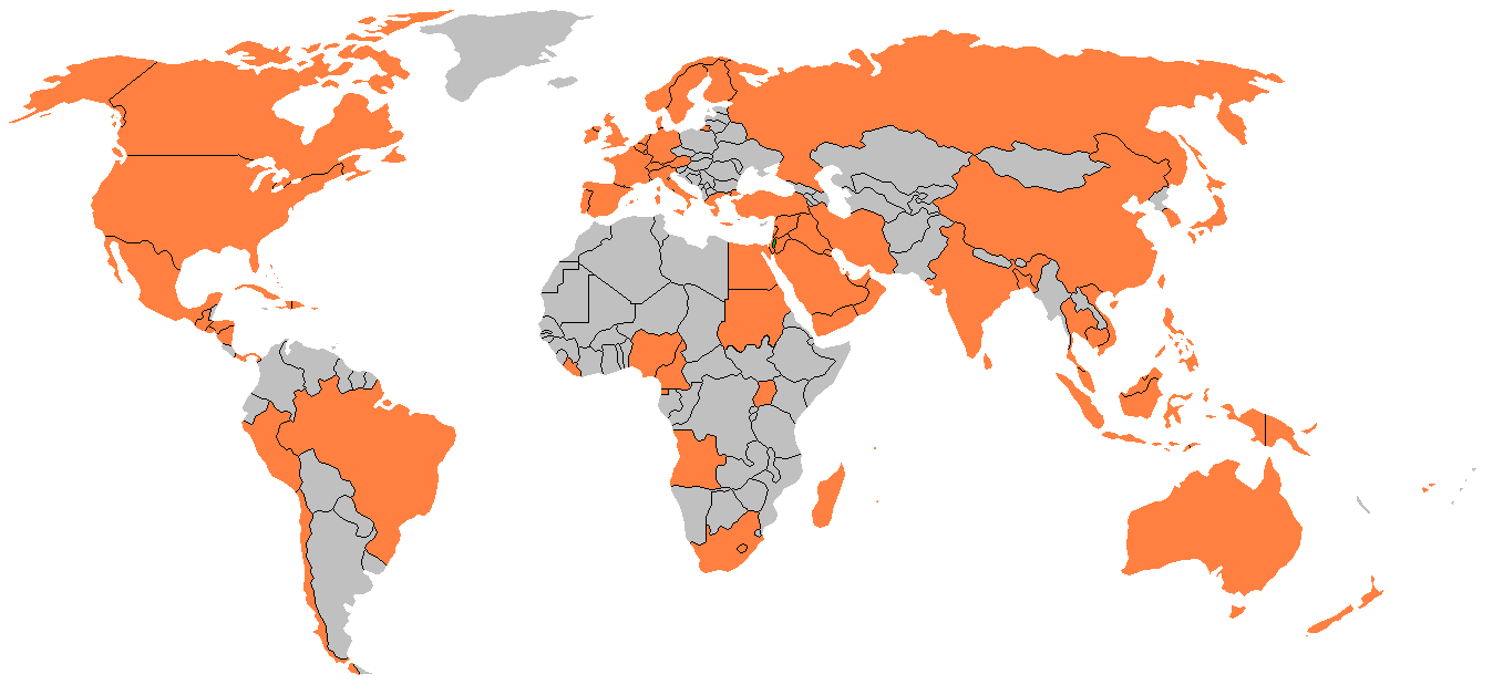 INC presence of countries in 2014. Orange have presence while grey haven't.